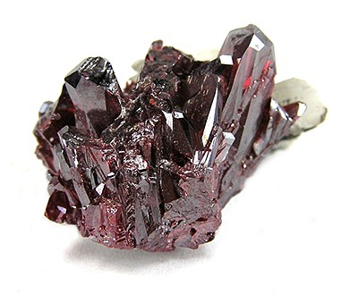 Calcite, Proustite Locality: Chañarcillo, Copiapó Province, Atacama Region, Chile (Locality at ) Size: thumbnail, 3.0 x 2.0 x 1.9 cm Proustite with calcite This exceptionally gemmy piece , with association of calcite, is from the famus finds of the late 1800s and such are very rare! it is a colorful and showy speciment hat is affordable and doesnt break the bank, given that it has some admitted damage between the major crystals and has been priced down accordingly. But, its show value is high and it remains a very rare specimen